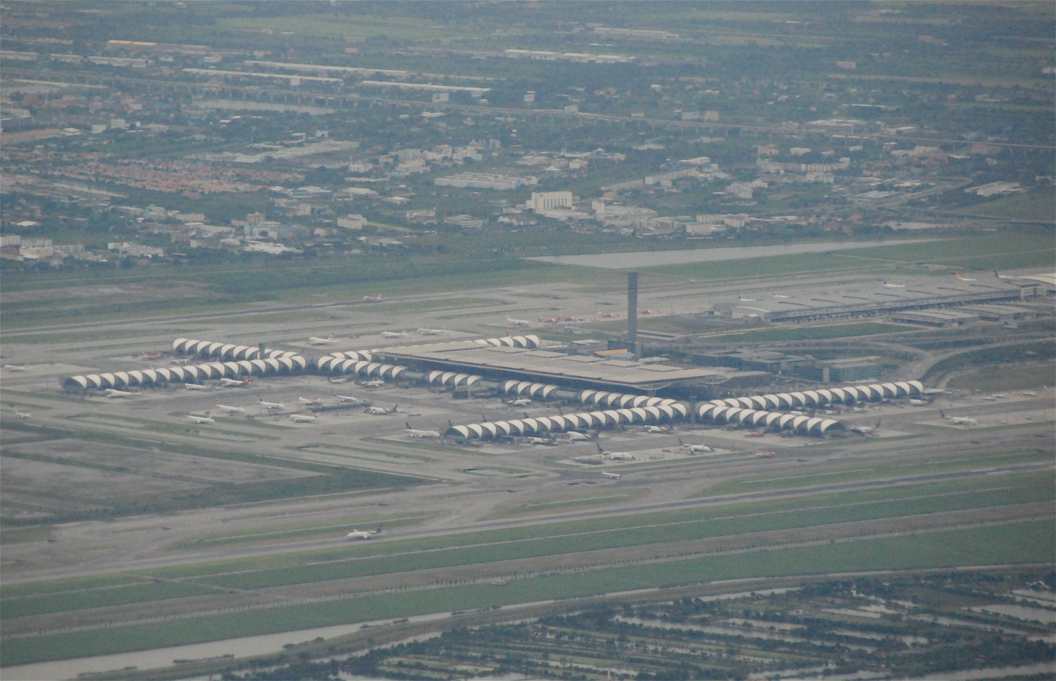 Thai Air Asia to HKG after take off from Bangkok's Suvarnabhumi airport